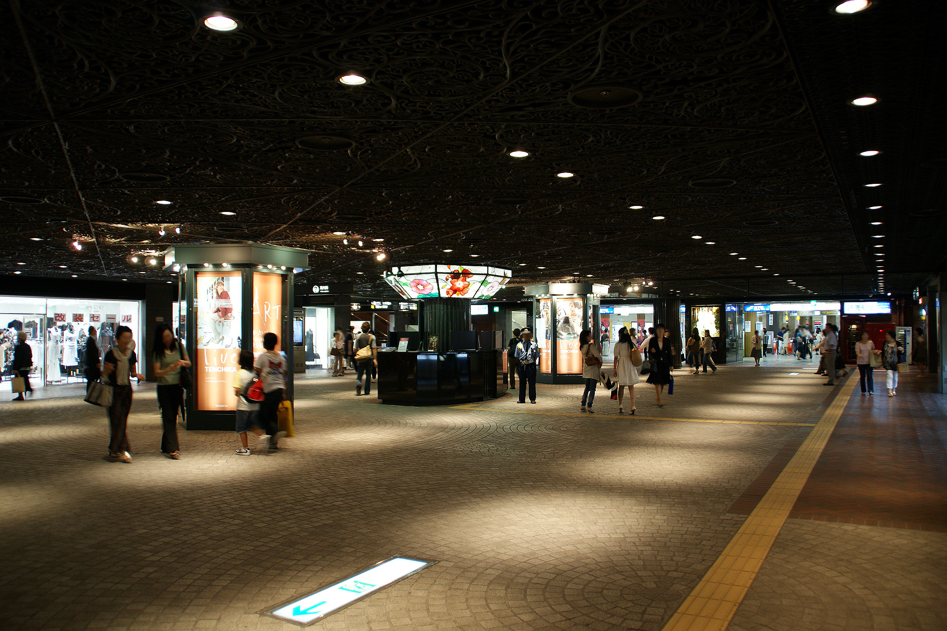 Tenjin Chikagai (Tenjin underground city) in Chuo-ku, Fukuoka City, Fukuoka Prefecture, Japan